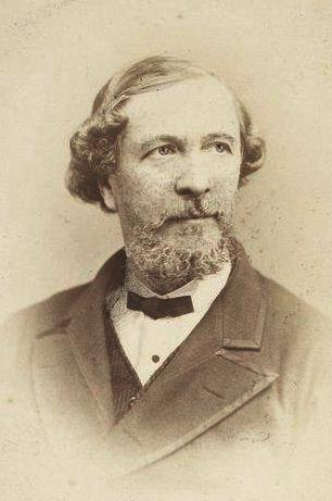 Nikolaus Trübner's portrait